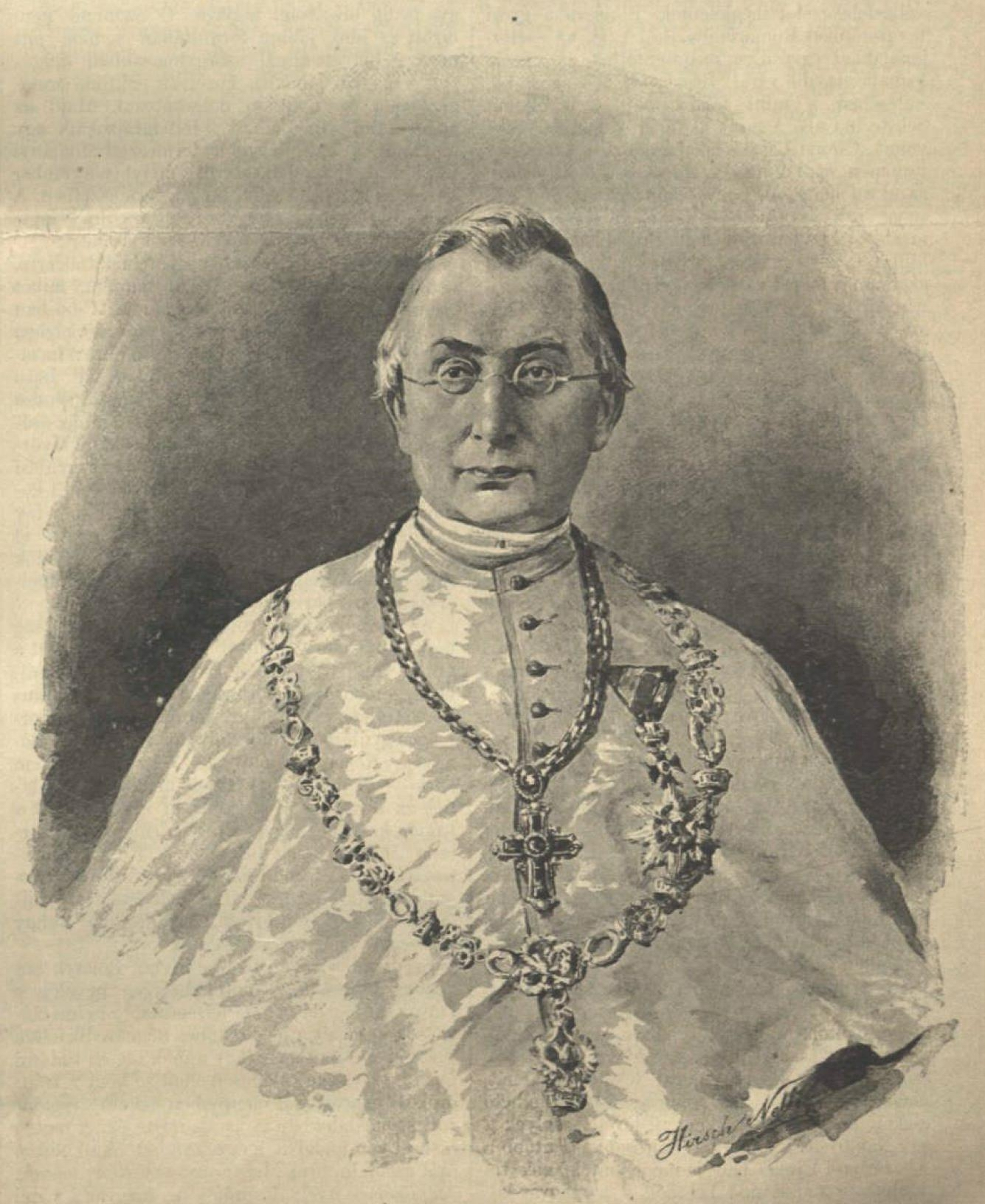 Jácint Rónay